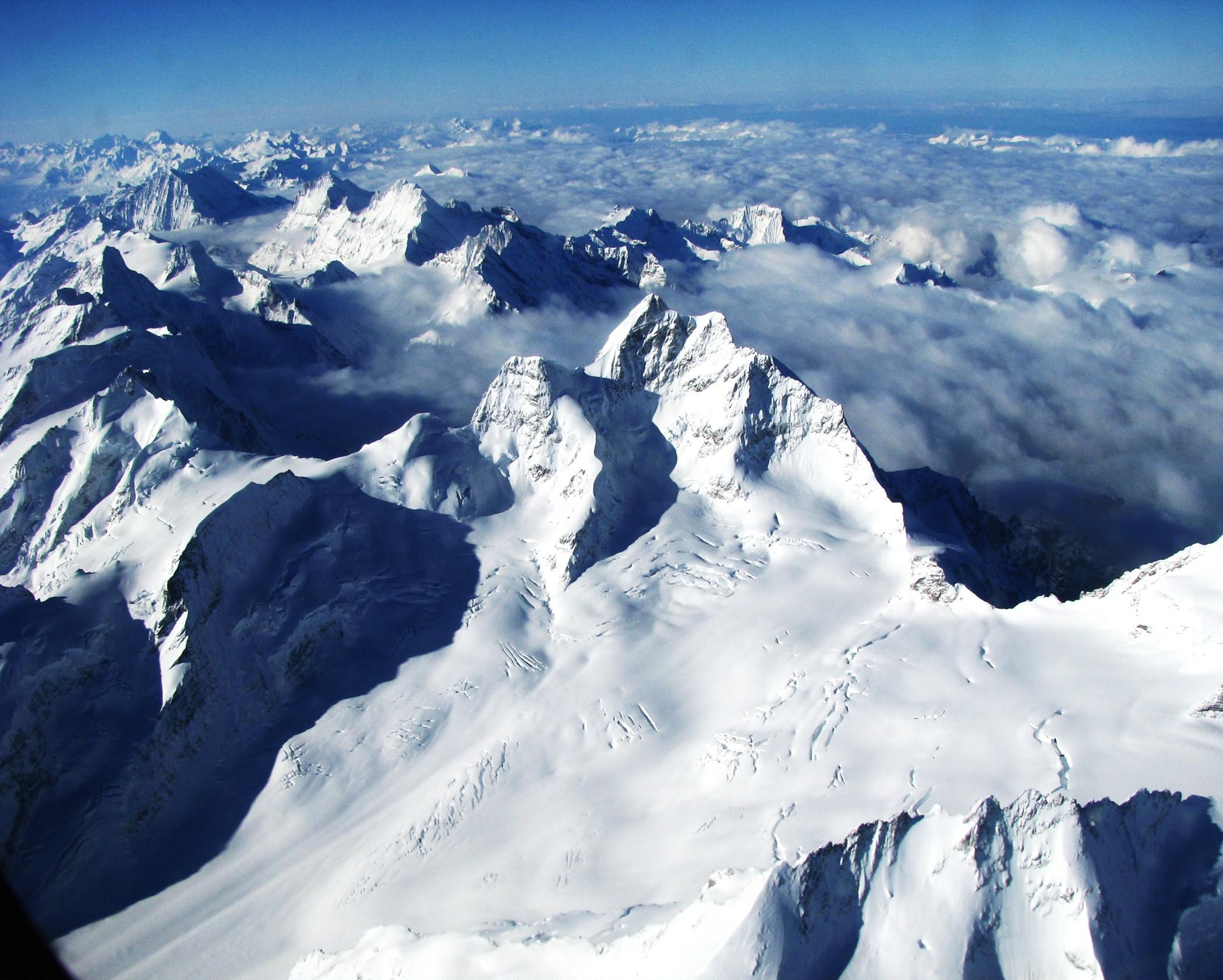 Aerial view of the Bernese Alps (Jungfrau in the center)